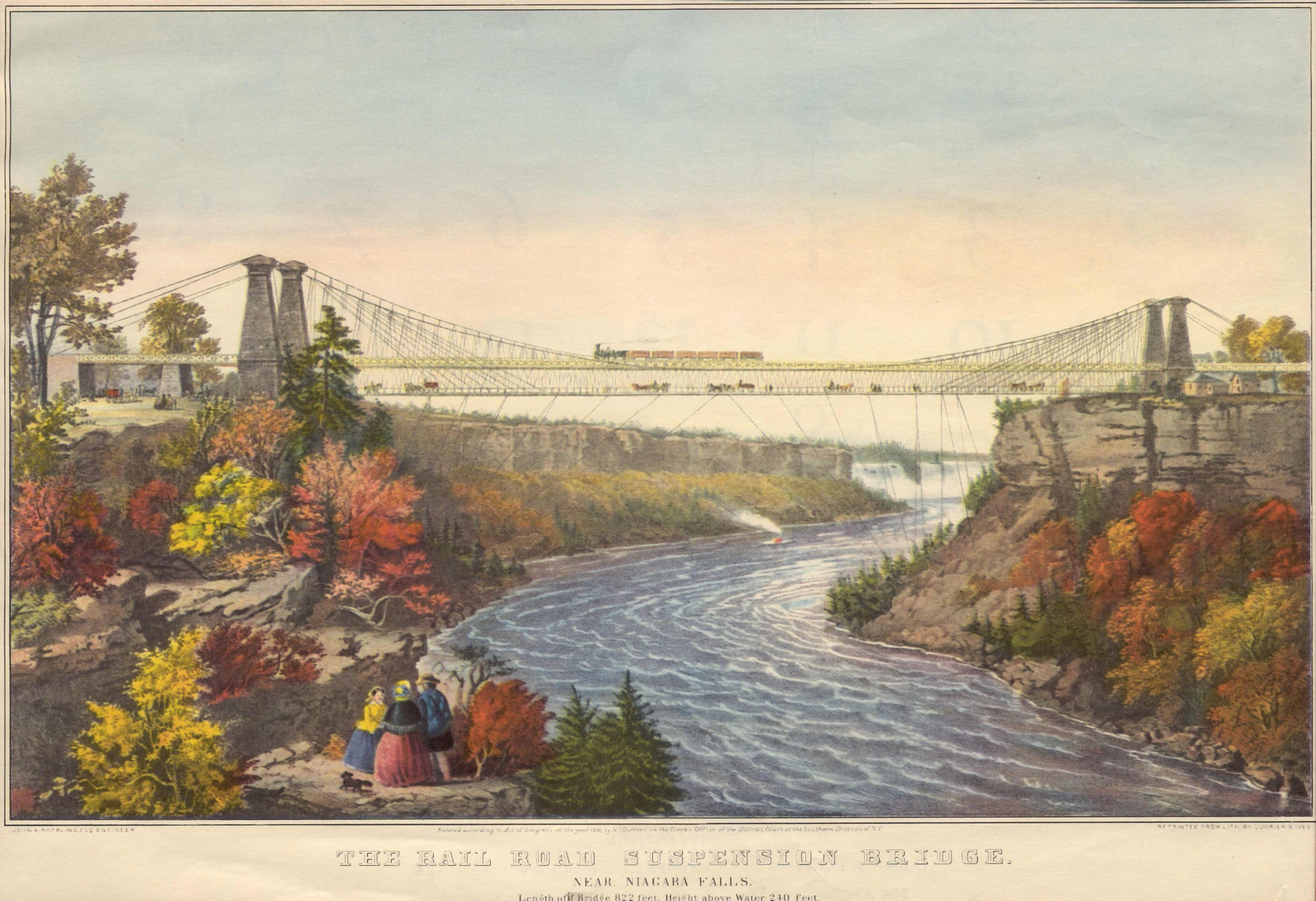 A hand-colored lithograph of the Niagara Suspension Bridge, showing the Niagara Falls in the background and the Maid of the Mist in the waters below. The architecture of the bridge is clearly visible.